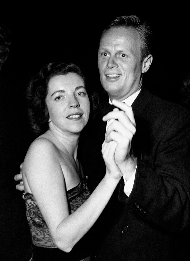 American actor Richard Widmark dancing with his wife, the American scriptwriter Jean Hazlewood. 1950s